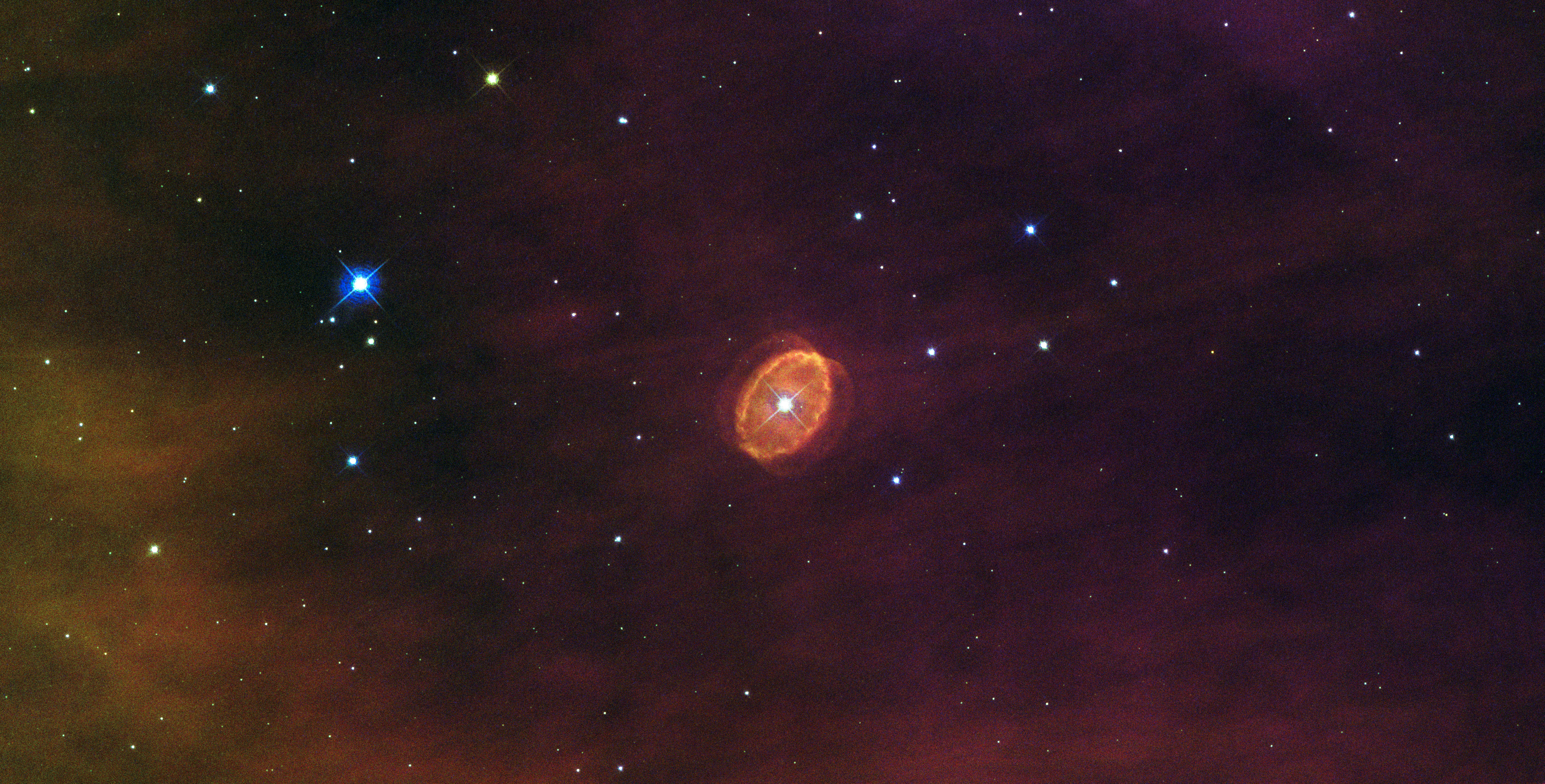 Floating at the centre of this new Hubble image is a lidless purple eye, staring back at us through space. This ethereal object, known officially as [SBW2007] 1 but sometimes nicknamed SBW1, is a nebula with a giant star at its centre. The star was originally twenty times more massive than our Sun, and is now encased in a swirling ring of purple gas, the remains of the distant era when it cast off its outer layers via violent pulsations and winds. But the star is not just any star; scientists say that it is destined to go supernova! 26 years ago, another star with striking similarities went supernova — SN 1987A. Early Hubble images of SN 1987A show eerie similarities to SBW1. Both stars had identical rings of the same size and age, which were travelling at similar speeds; both were located in similar HII regions; and they had the same brightness. In this way SBW1 is a snapshot of SN1987a's appearance before it exploded, and unsurprisingly, astronomers love studying them together. At a distance of more than 20 000 light-years it will be safe to watch when the supernova goes off. If we are very lucky it may happen in our own lifetimes... A version of this image was entered into the Hubble's Hidden Treasures image processing competition by contestant Nick Rose.